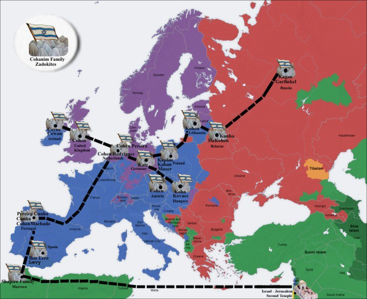 Graphic representation of Cohen migration.